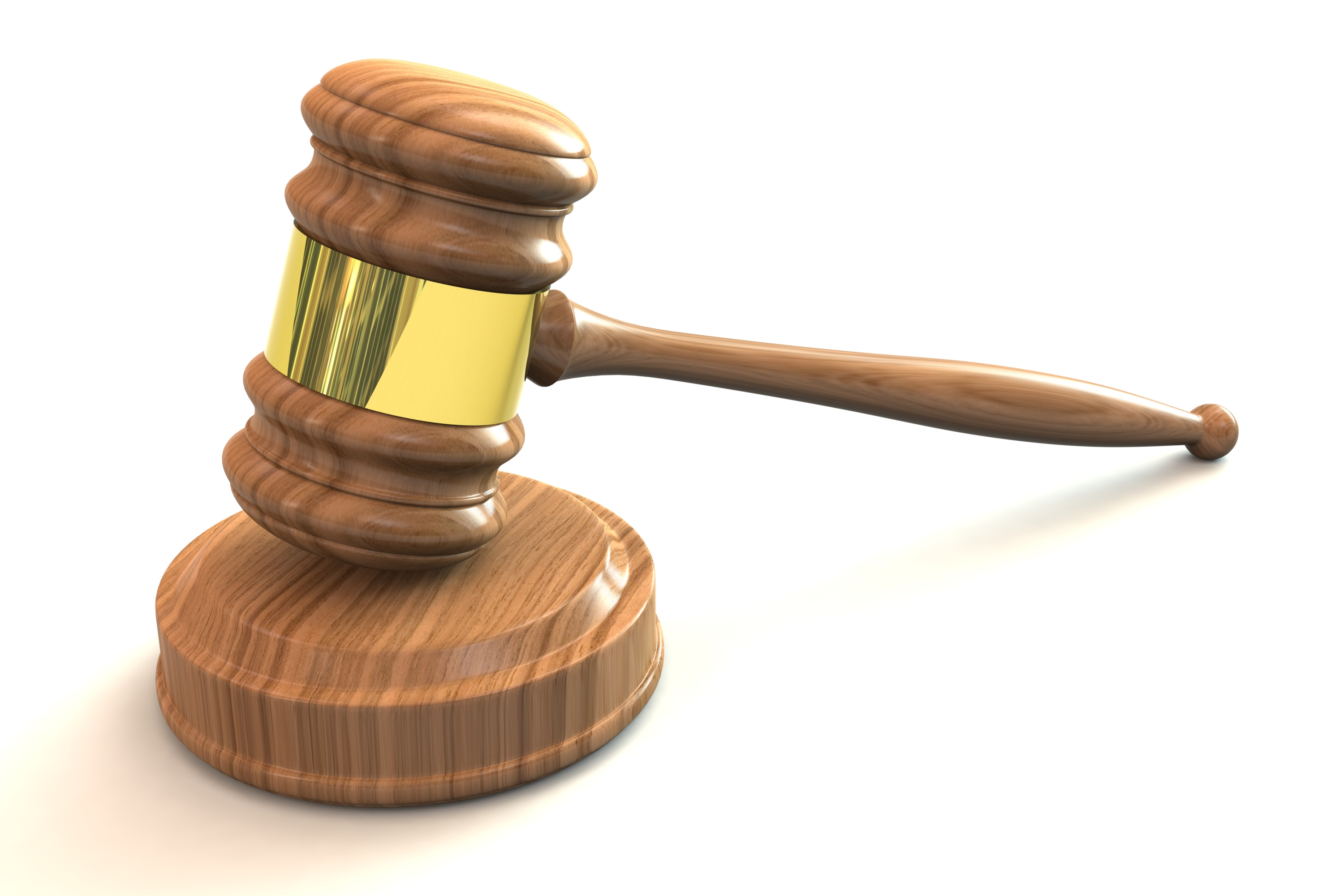 Please give attribution to ' ' (and point the link to Thanks!)